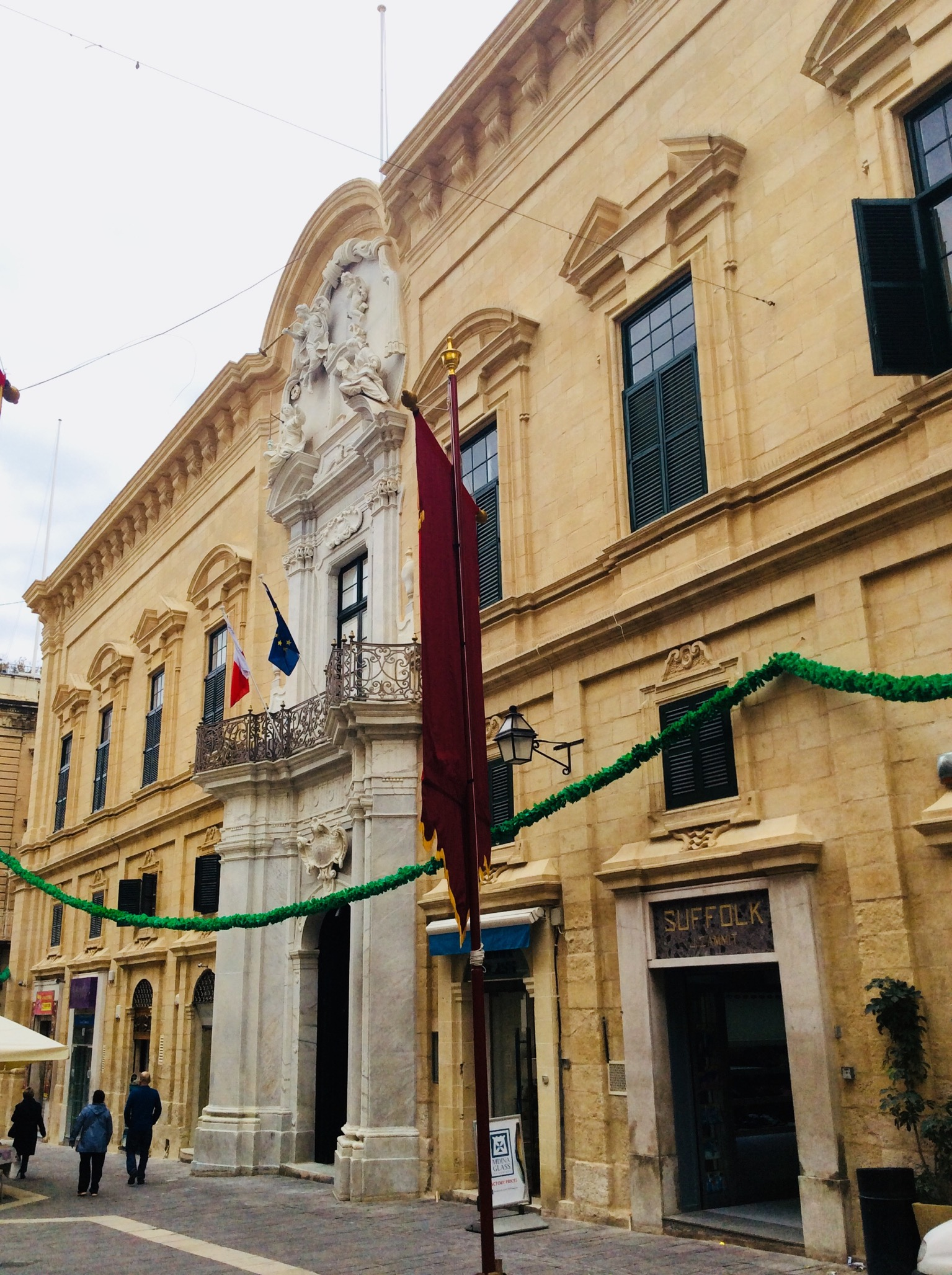 Castellania with Valletta 2018 Festa decorations